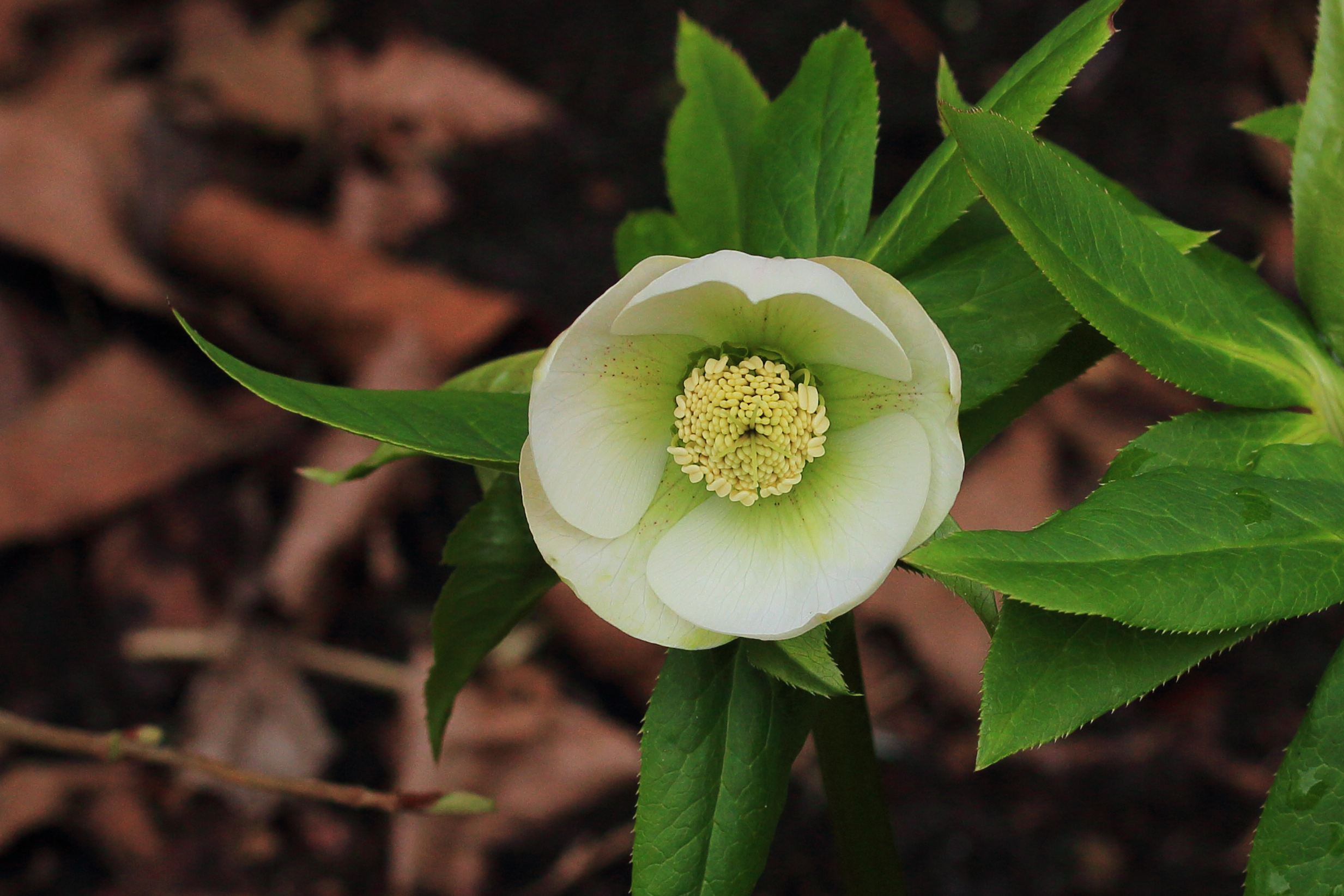 Helleborus orientalis. Almost white seedling.